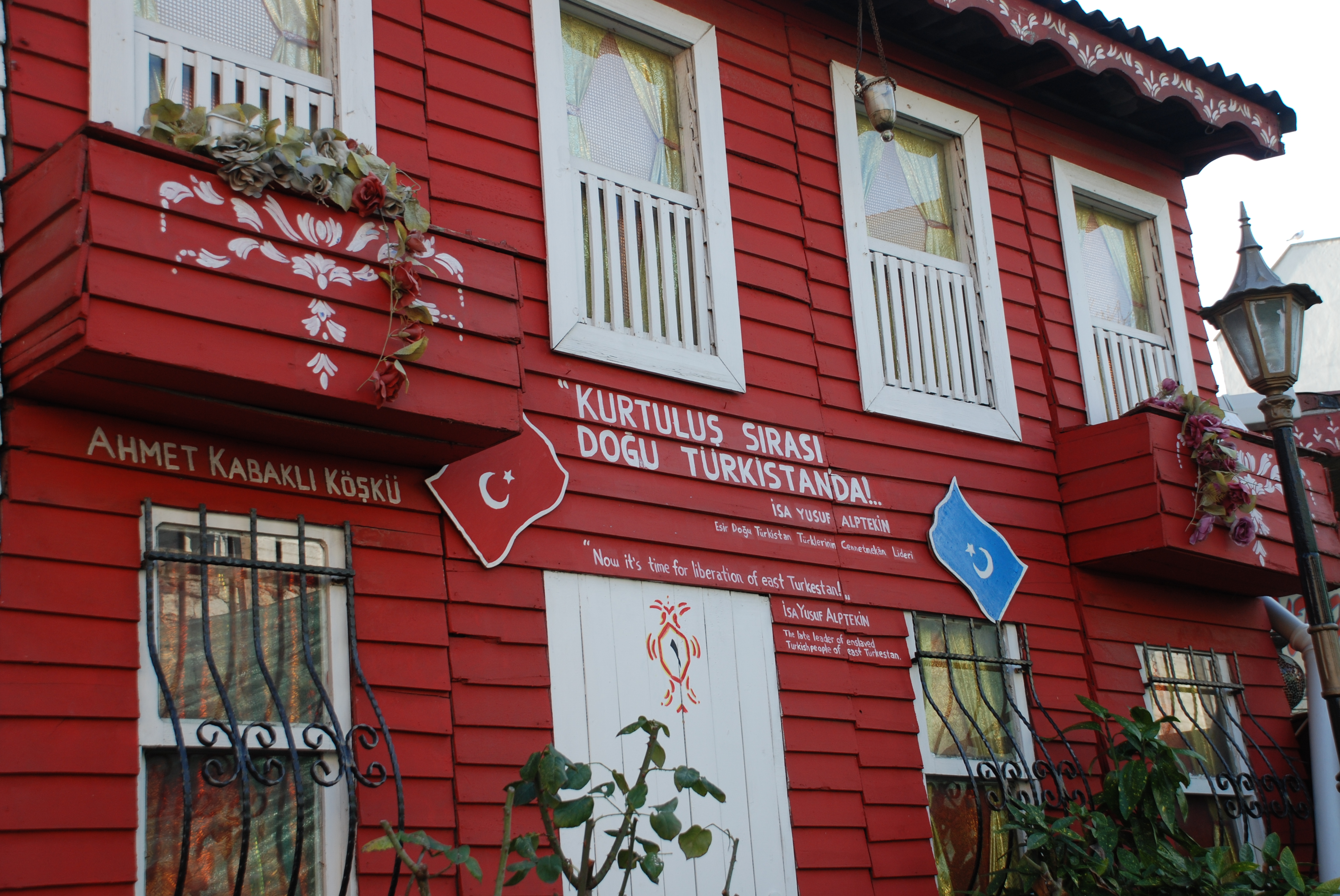 Restaurant of an East Turkestani expat in Istanbul, Turkey